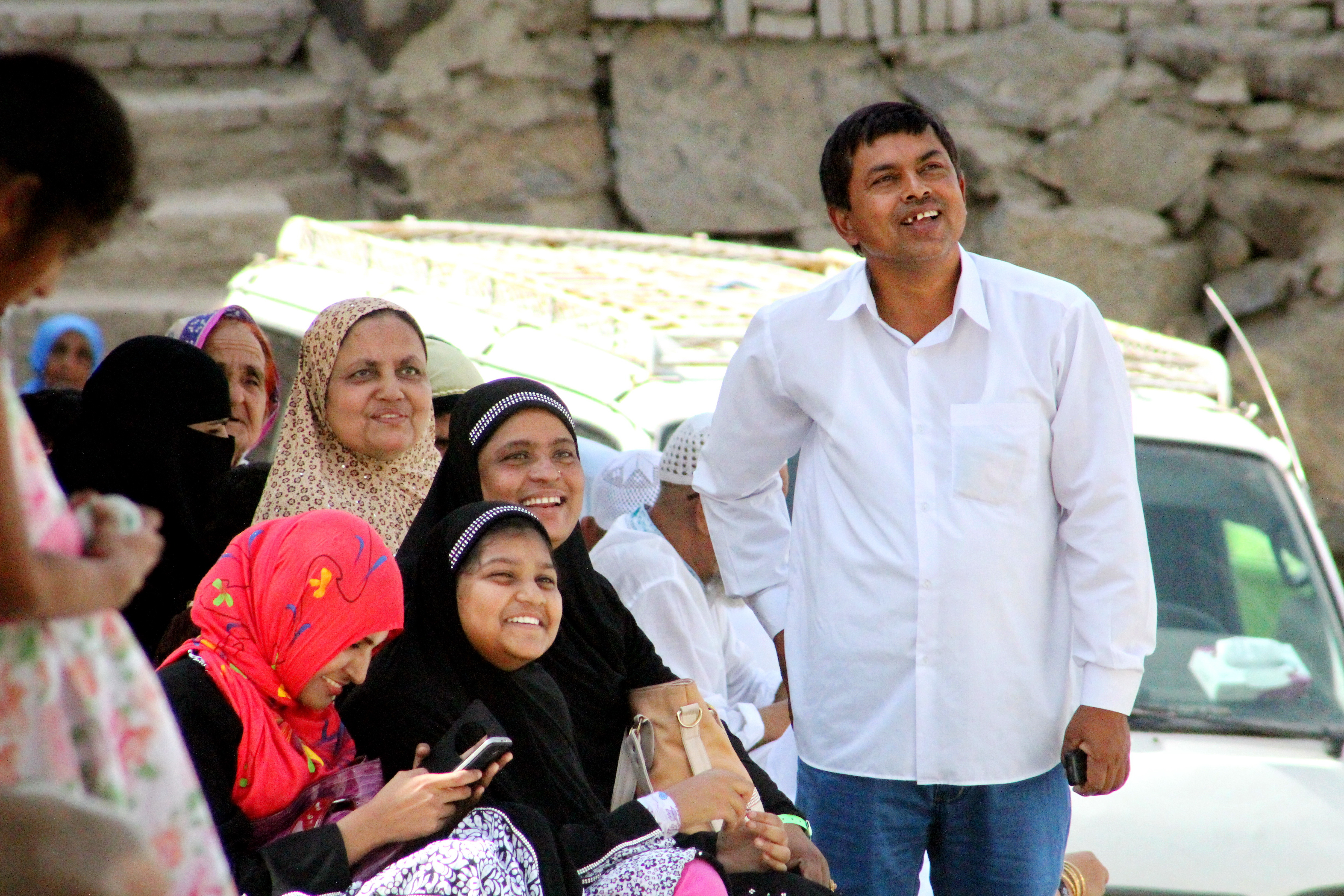 A Bangladeshi family at the valley of Jabal al-Noor in Makkah, Saudi Arabia.